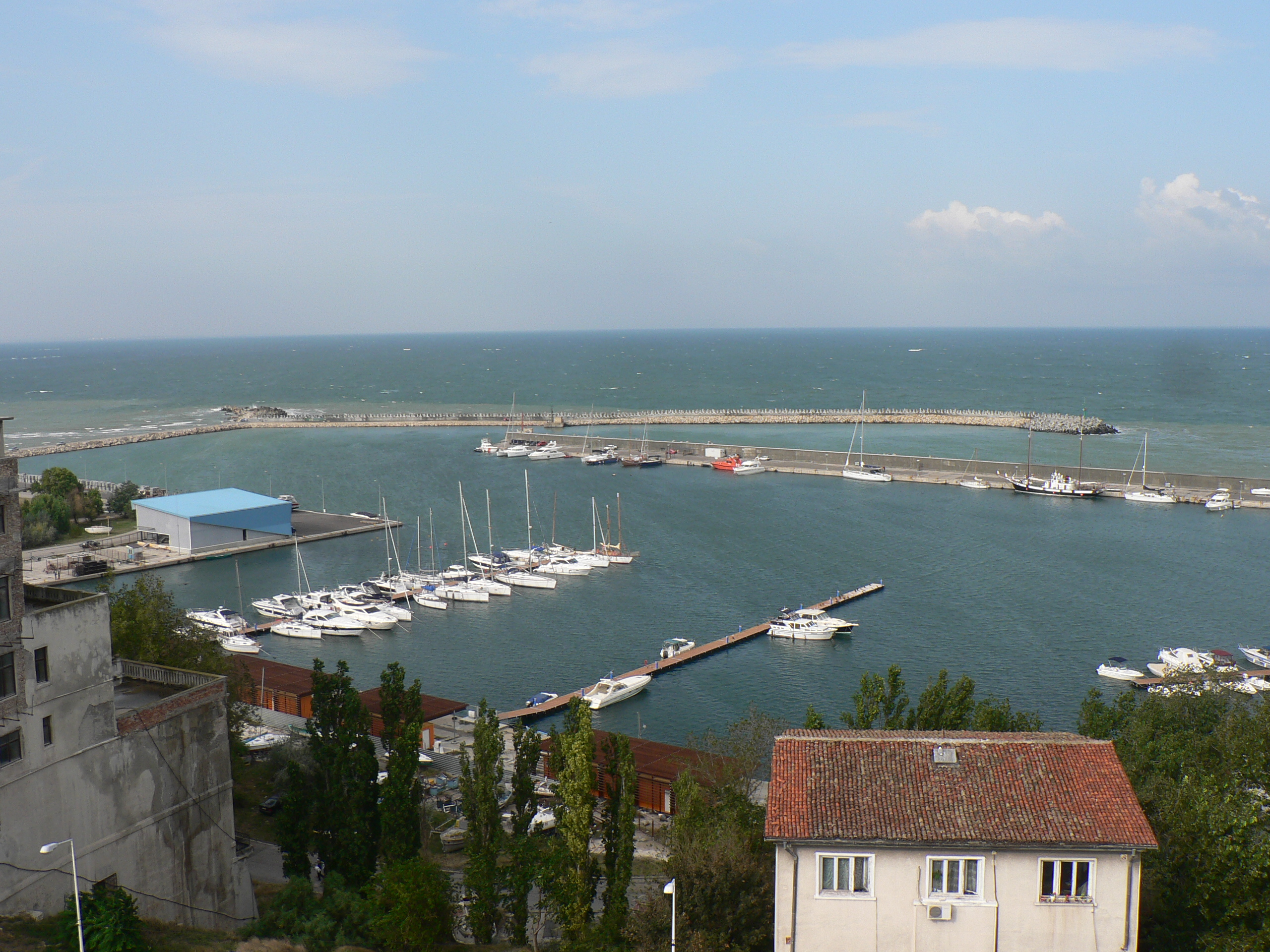 Black Sea seen from mosque in Constanţa